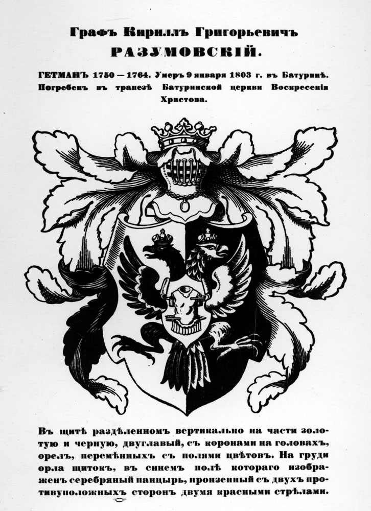 G. I. Narbut. The arms of hetman Cyril Razumovsky